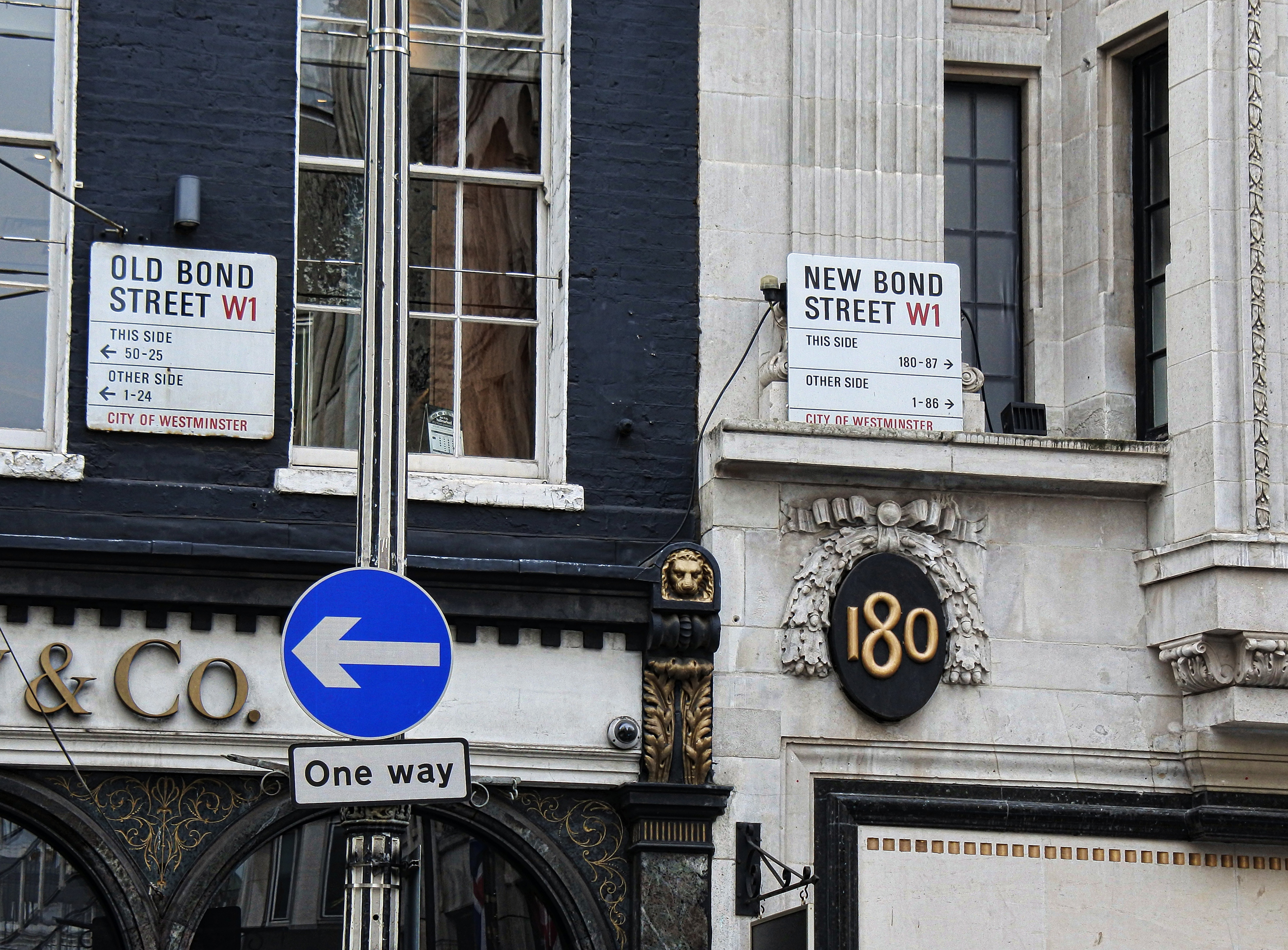 Street signs in central London.